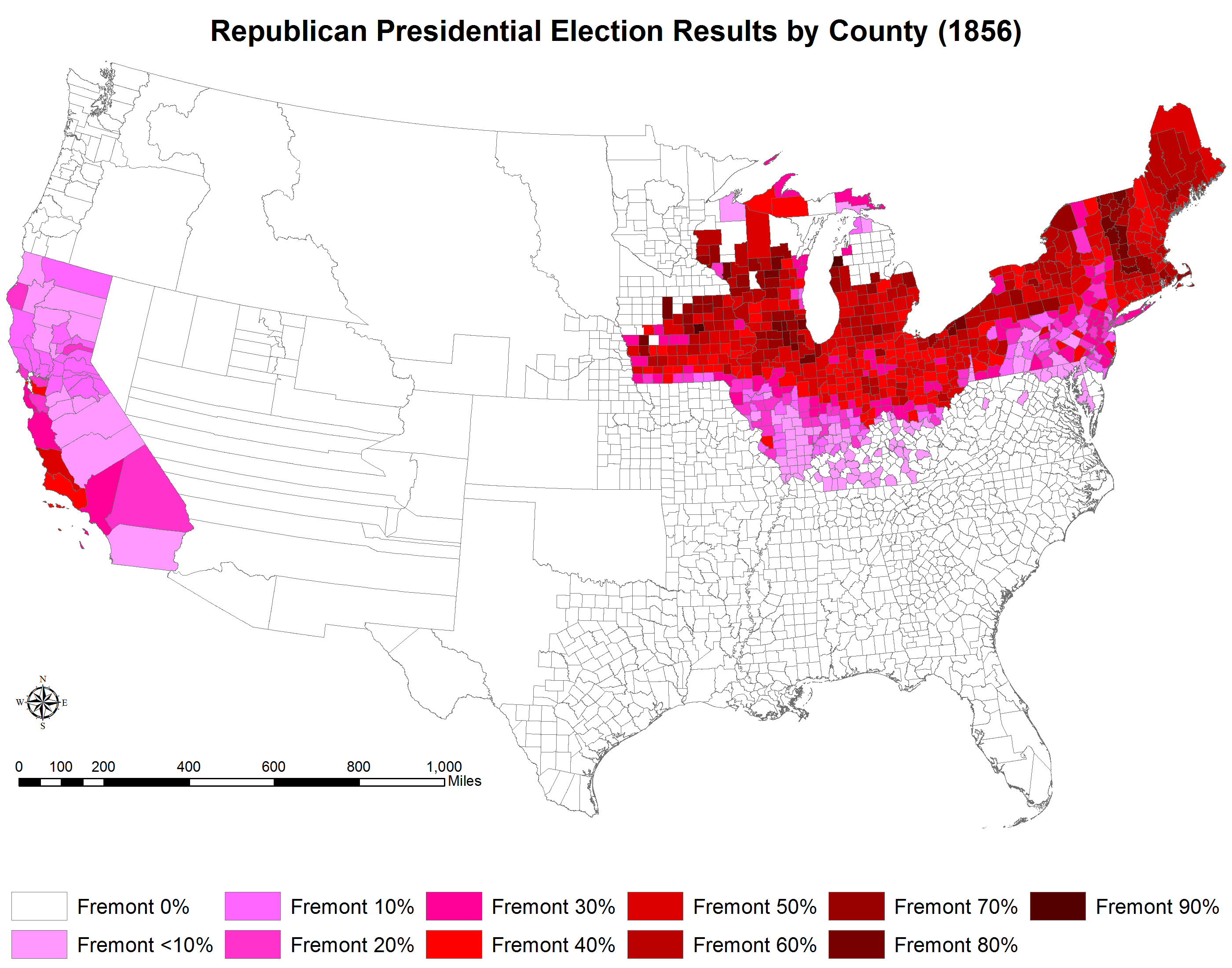 Republican presidential election results by county (1856).